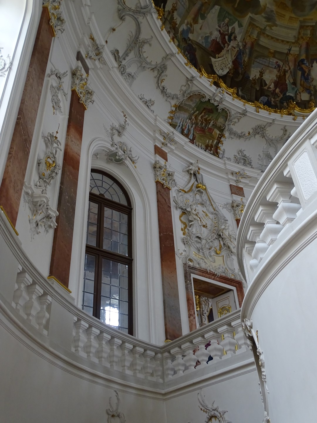 The interior of the castle Bruchsal, staircase